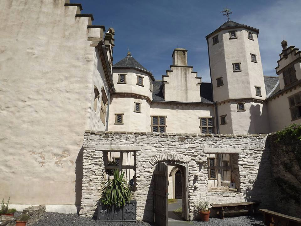 A shot of the front